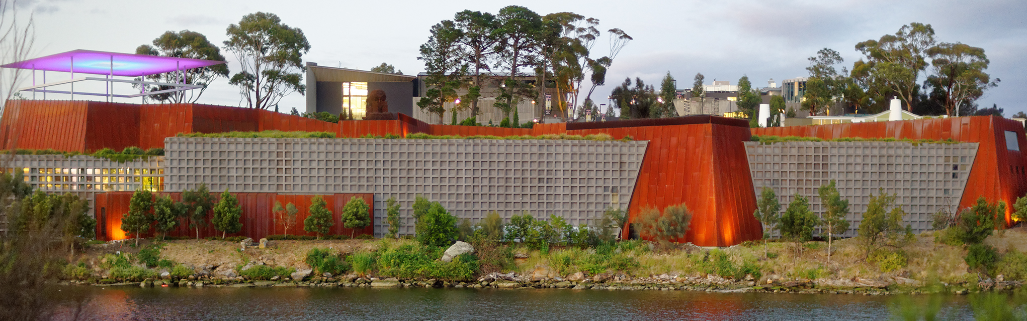 James Turrell's Amarna at Mona Tasmania sunset 2015